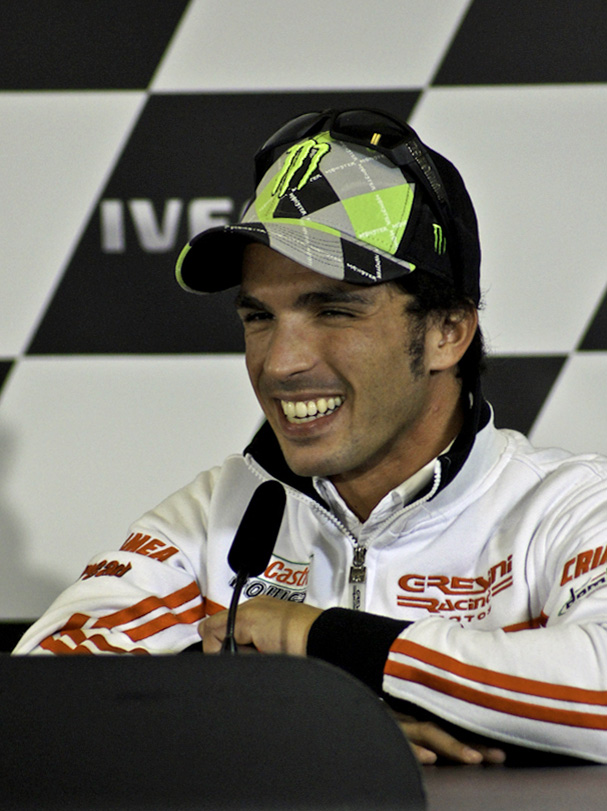 Toni Elias 2010 Phillip Island